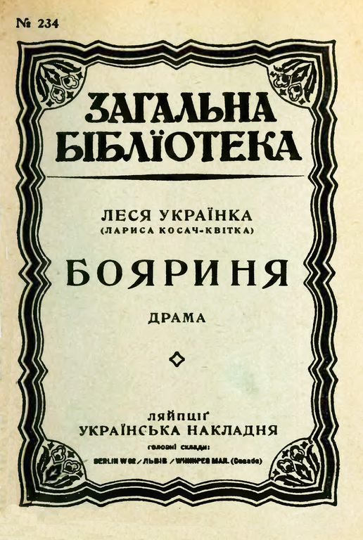 Cover of "Boyarinya", a poem by Ukrainian author Lesya Ukrainka (1871-1913). Book was published in Leipzig, Germany.